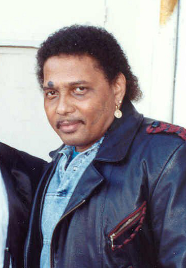 Aaron Neville at Grammy rehearsal 20/FEB/1990.